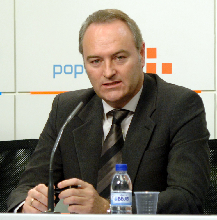 Alberto Fabra, president of the Valencian Community.